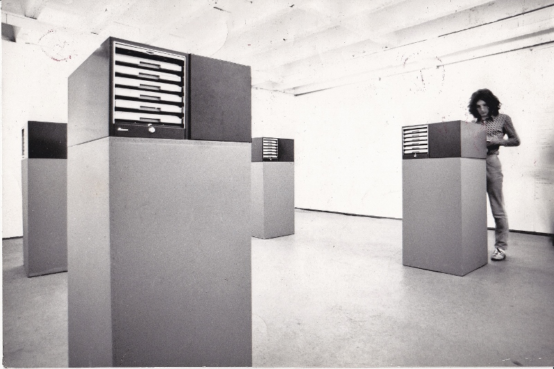 Index 01 is a seminal art work by the conceptual artists of Art & Language. It was first shown at Documenta 5 in Kassel in 1972.